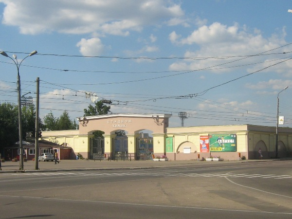 Tver, Stadium "Khimik", established in 1955.